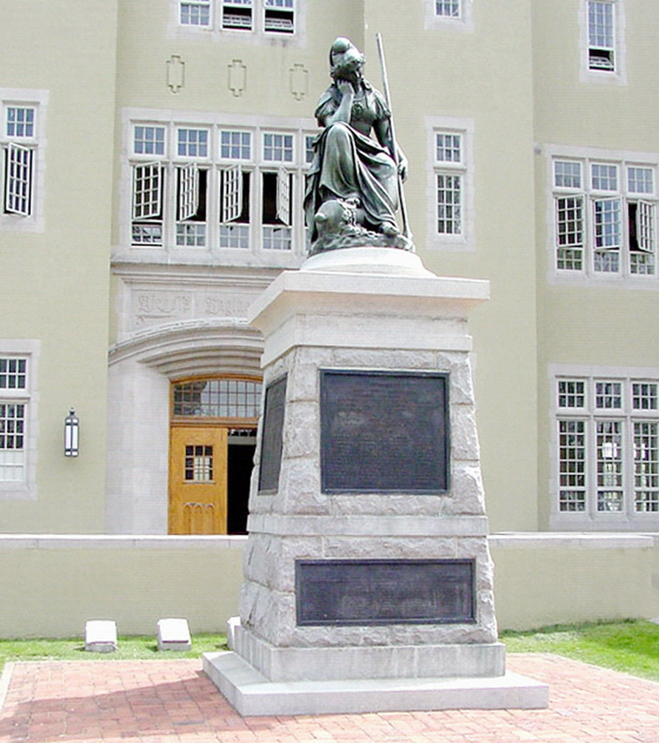 The state of Virginia "Mourning Her Sons". The Virginia Military Institute Cadets killed at the Battle of New Market defending Virginia are buried behind the memorial and headstones appear as white "blocks".